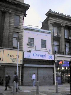 Wickhams Department Store in the Mile End Road, East End of London, UK.